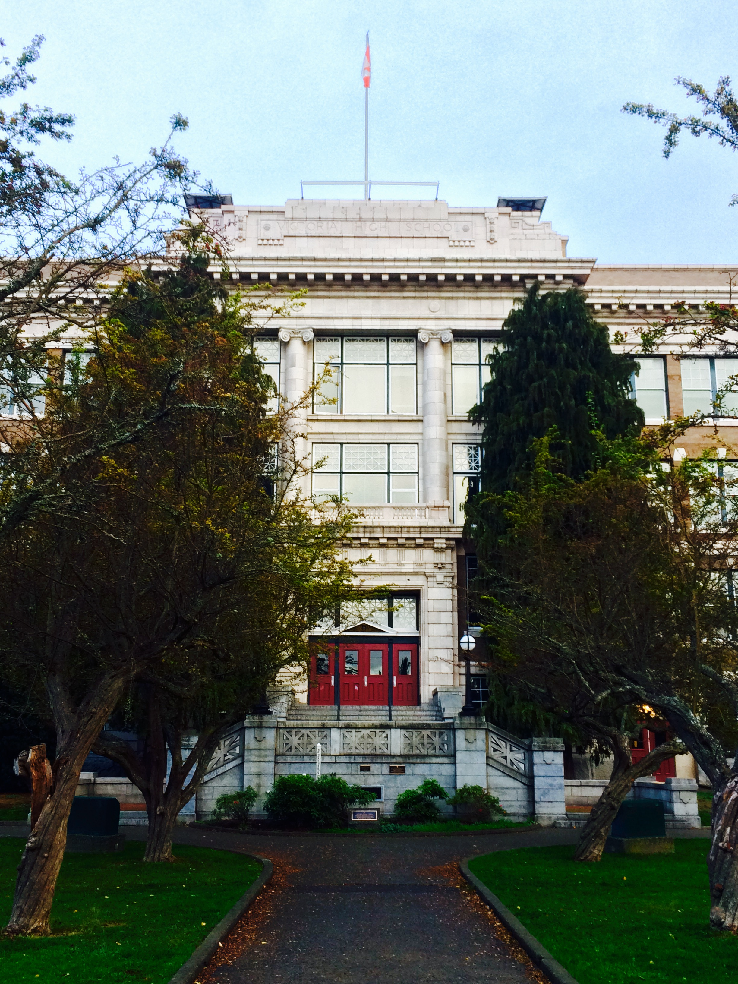 Victoria High School, Victoria BC, Canada, main facade, 2015